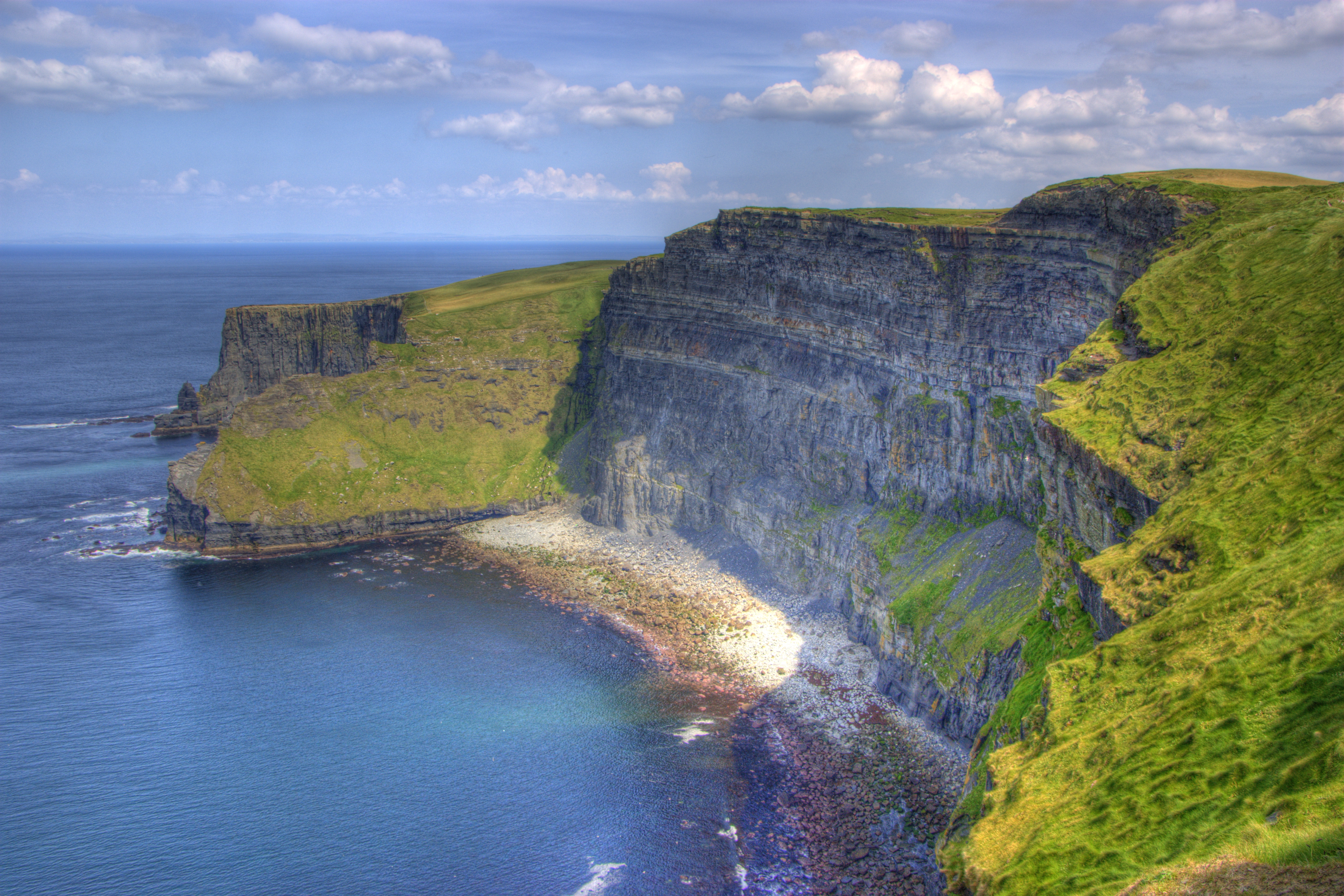 cliffs of moher